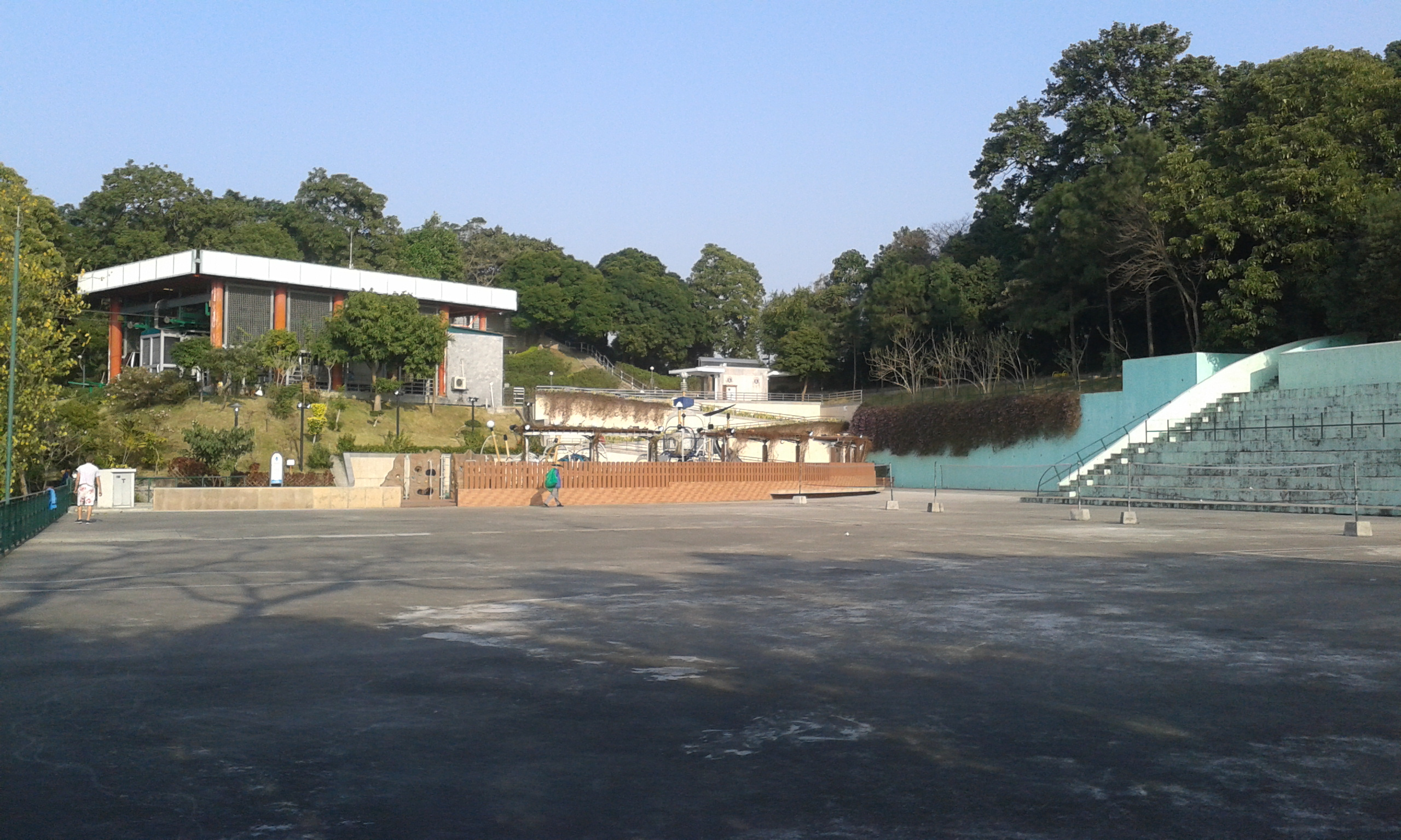 a playground in Guia Park